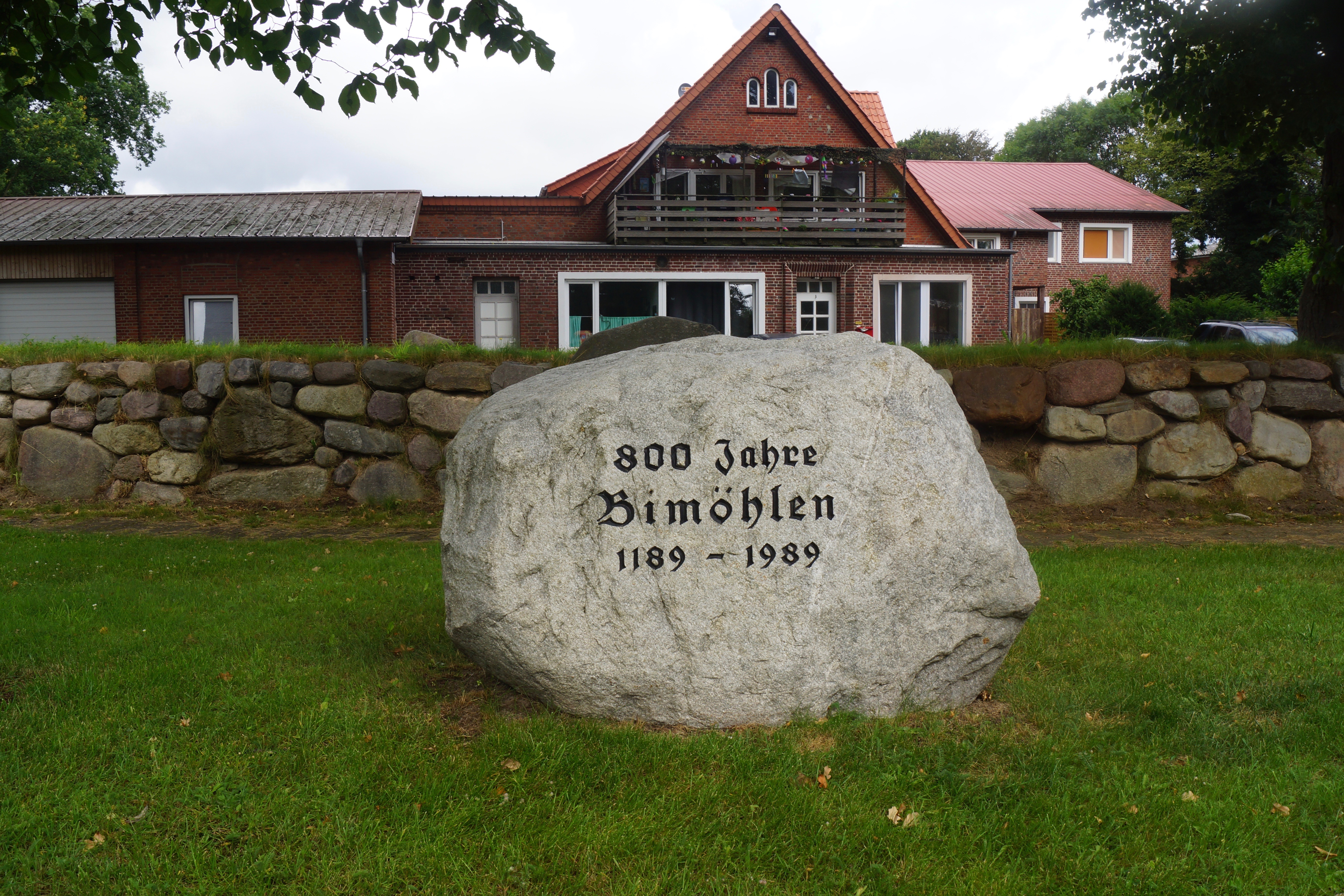 Bimöhlen, Germany: Monument made from a Glacial erratic to celebrate de 800th birthday of Bimöhlen